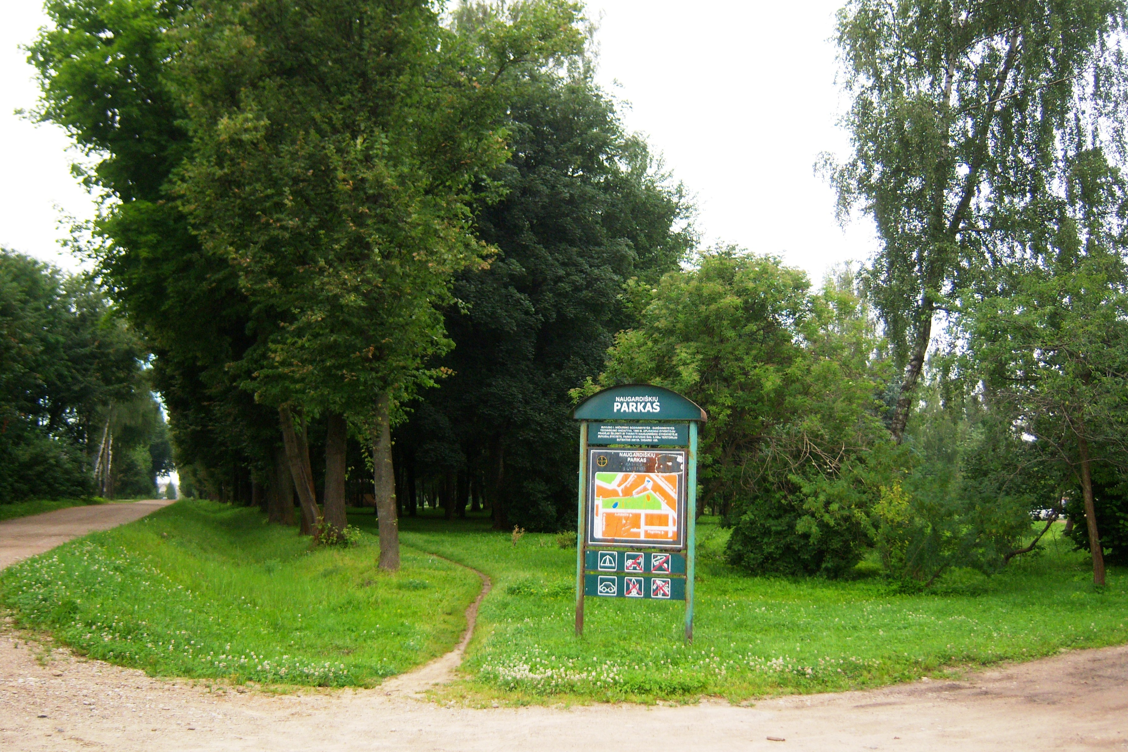 Naugardiškės park, Kaunas, Lithuania